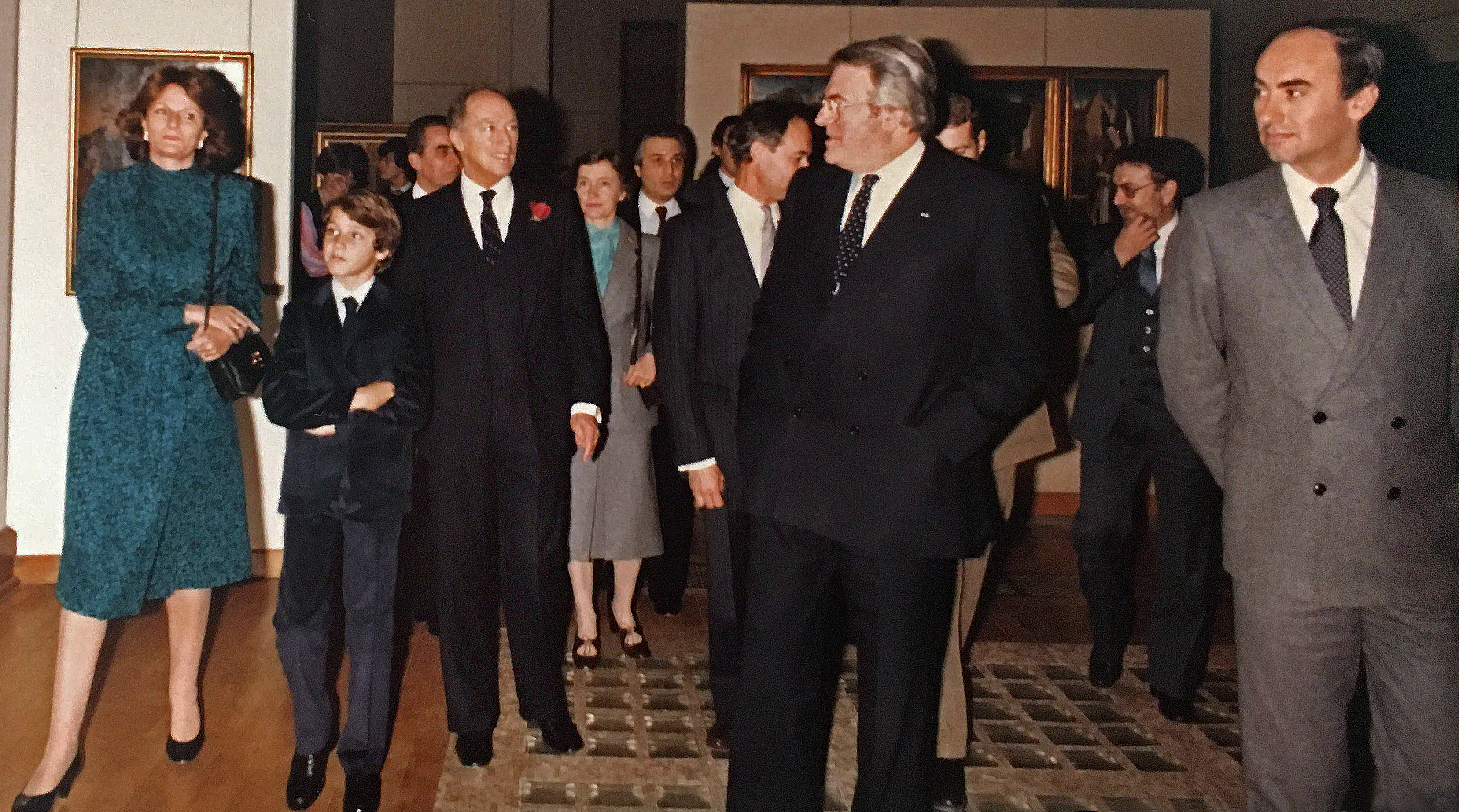 Formal visit of the museum with, on the left, Jacquie Buffin, deputy major in charge of culture, on the right, Pierre Mauroy, major of Lille from 1973 to 2001. In the middle, Justin Trudeau (when he was 10 years old) and his father, Pierre Elliott Trudeau, Prime Minister of Canada at this moment. Justin Trudeau is the 23rd and (as of 2017) current Prime Minister of the Government of Canada.